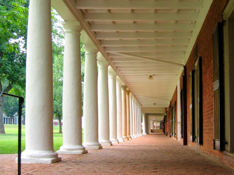 East Lawn, surrounding the Lawn at the University of Virginia.